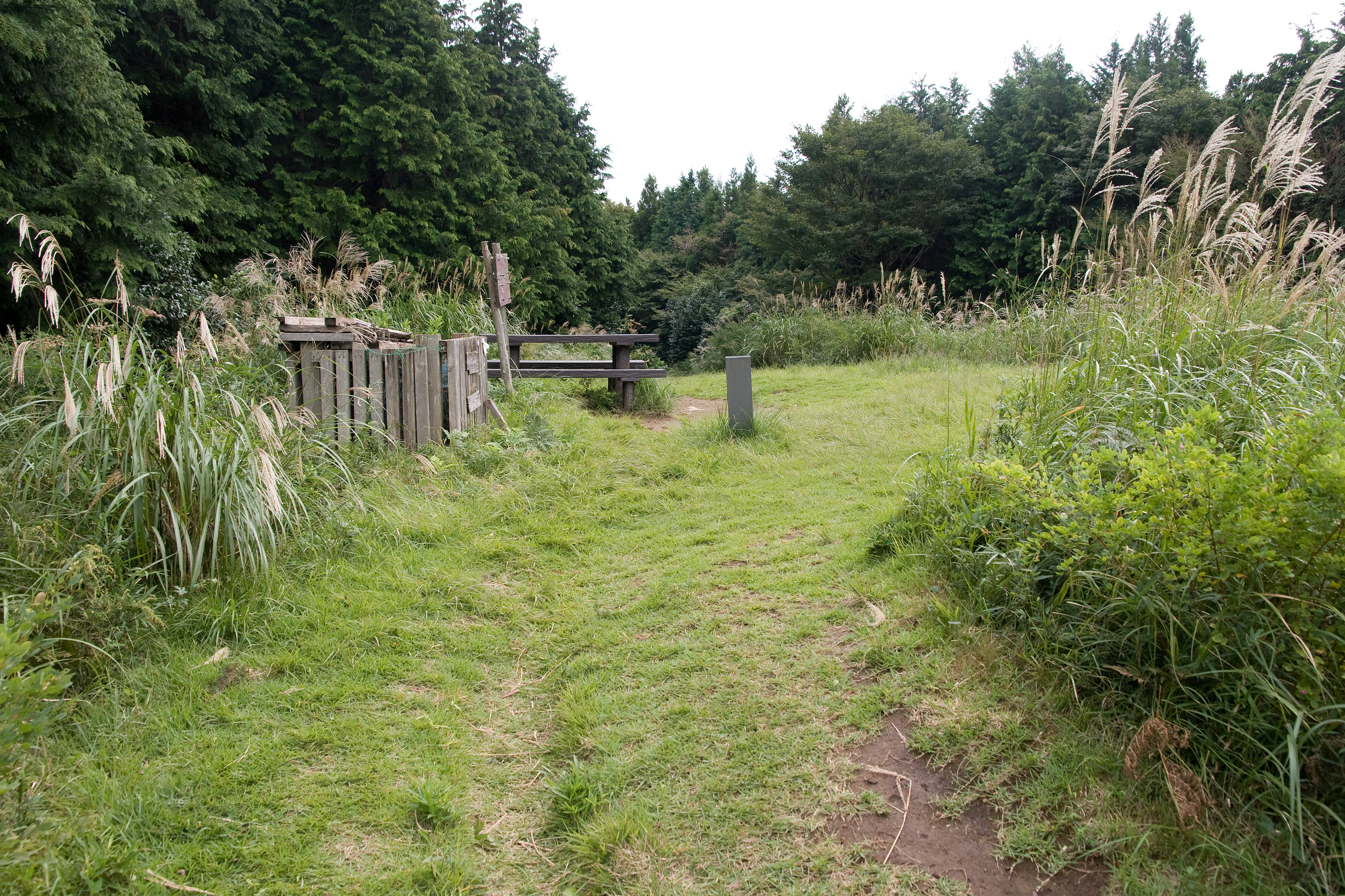 The summit of Mount Takanosu (Takanosu-yama 鷹巣山、たかのすやま) in Hakone Town, Kanagawa Pref., Japan.